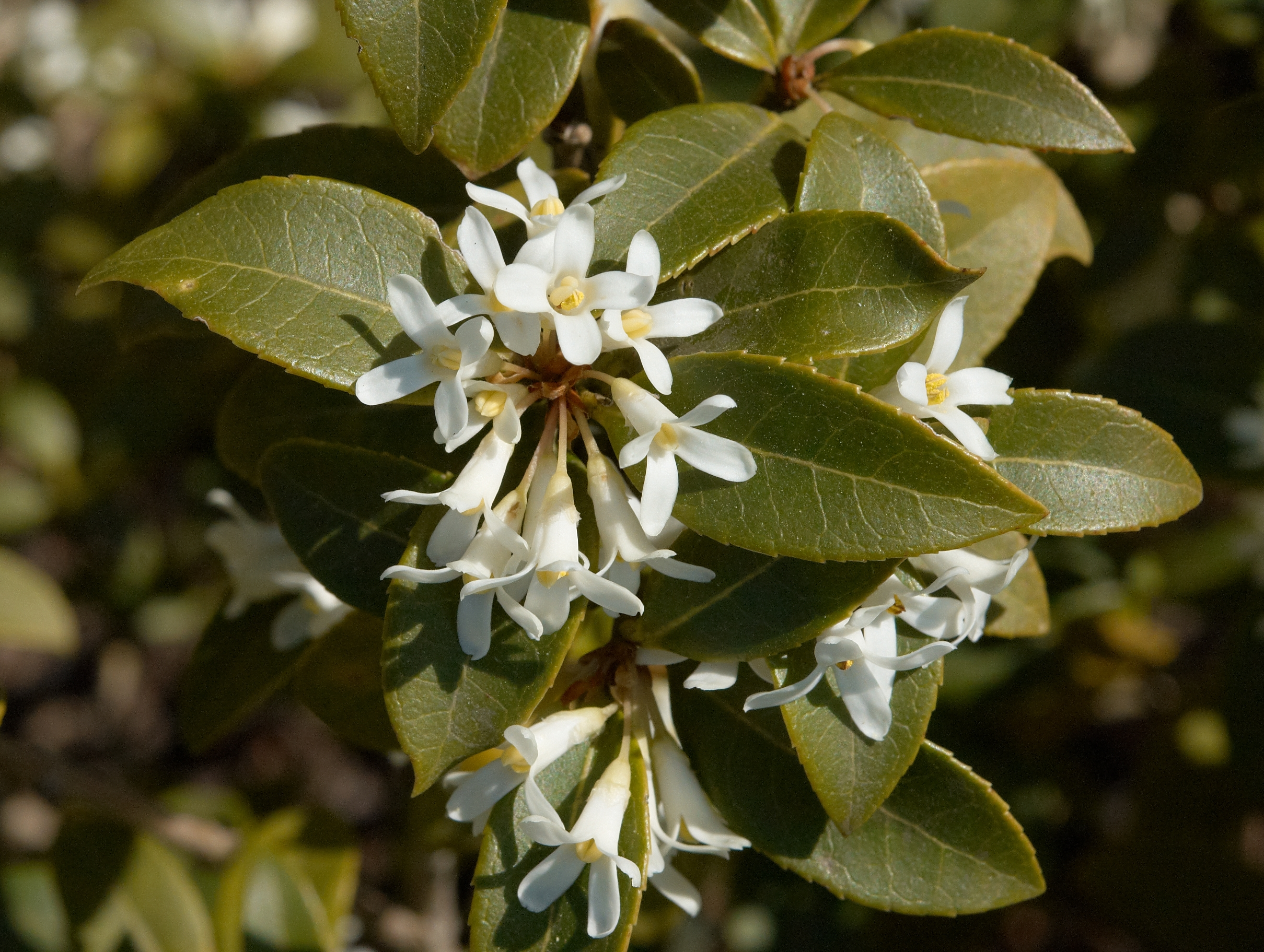 Osmanthus x burkwoodii. This photo has been taken in Belgium.